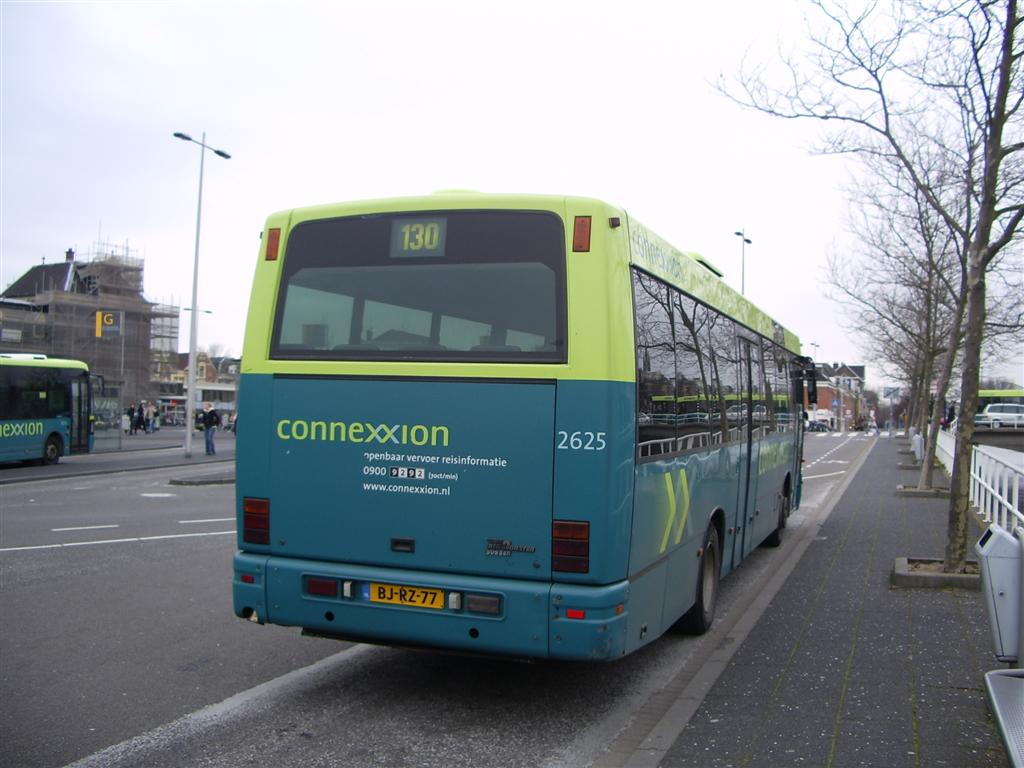 Den Oudsten B95 Alliance Intercity bus (#2625), Station Delft, Netherlands, april 2006.